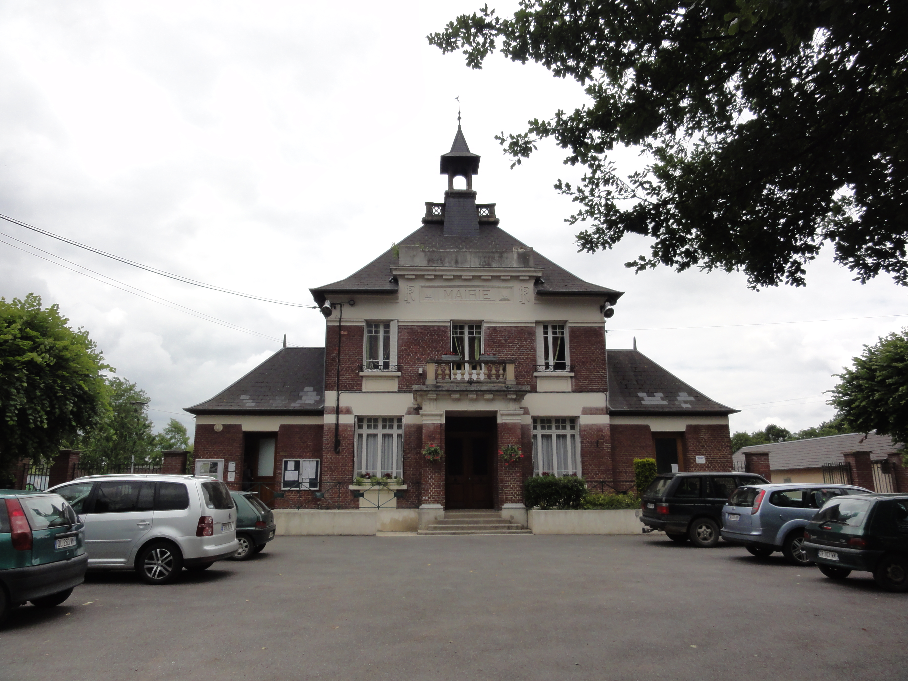 Bichancourt (Aisne) mairie